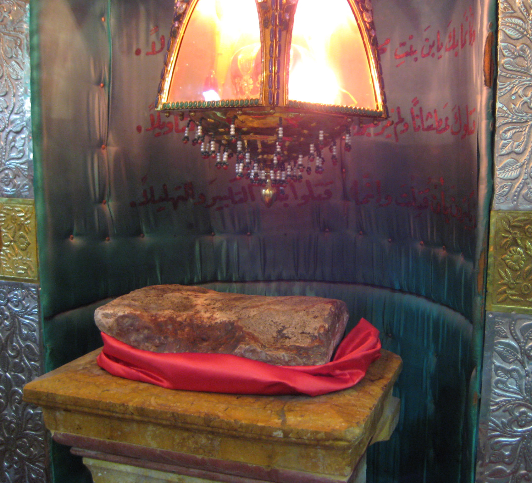 Stone in Masjid al-Nuqtah, stained with the blood of Imam Husayn (as) - Aleppo, Syria